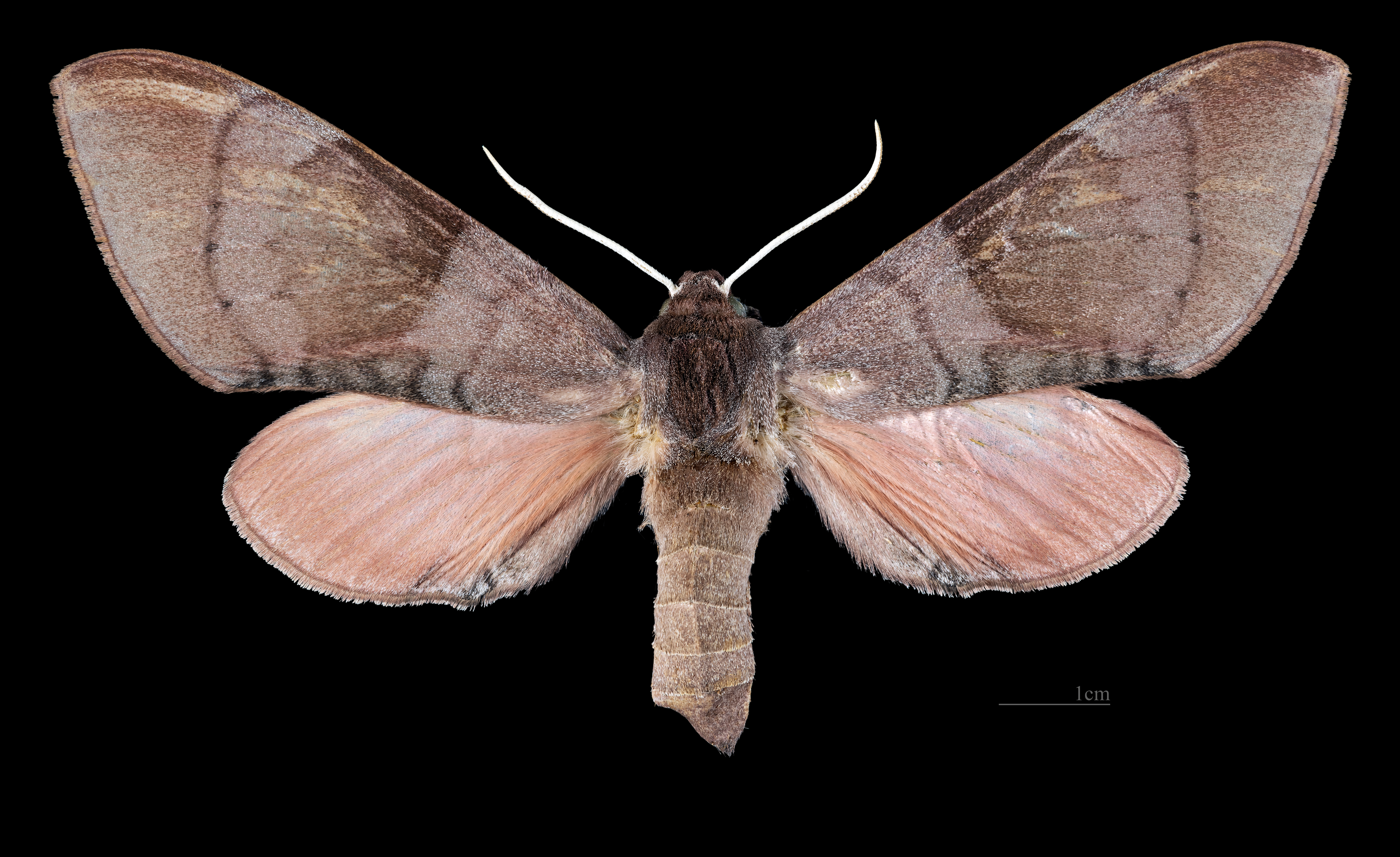 Agnosia orneus - Dorsal side Collection of the Mathematician Laurent Schwartz